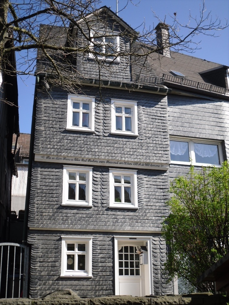 Siegen/Germany – historical monument "A-033"; in the old town (upper town) of Siegen, located at Untere Metzgerstraße 37. Wrong "birthplace" of Peter Paul Rubens. An inscription at the third floor of the house jokingly claims that "by hearsay" Peter Paul Rubens had been born here. The Brambach house however that Johann Rubens had rented in Siegen for himself and his family had been in Burgstr. 10 and was completely destroyed during the last weeks of WW II in 1945. Cf. File:SI Plakette Rubens-Geburtshaus 1.jpg